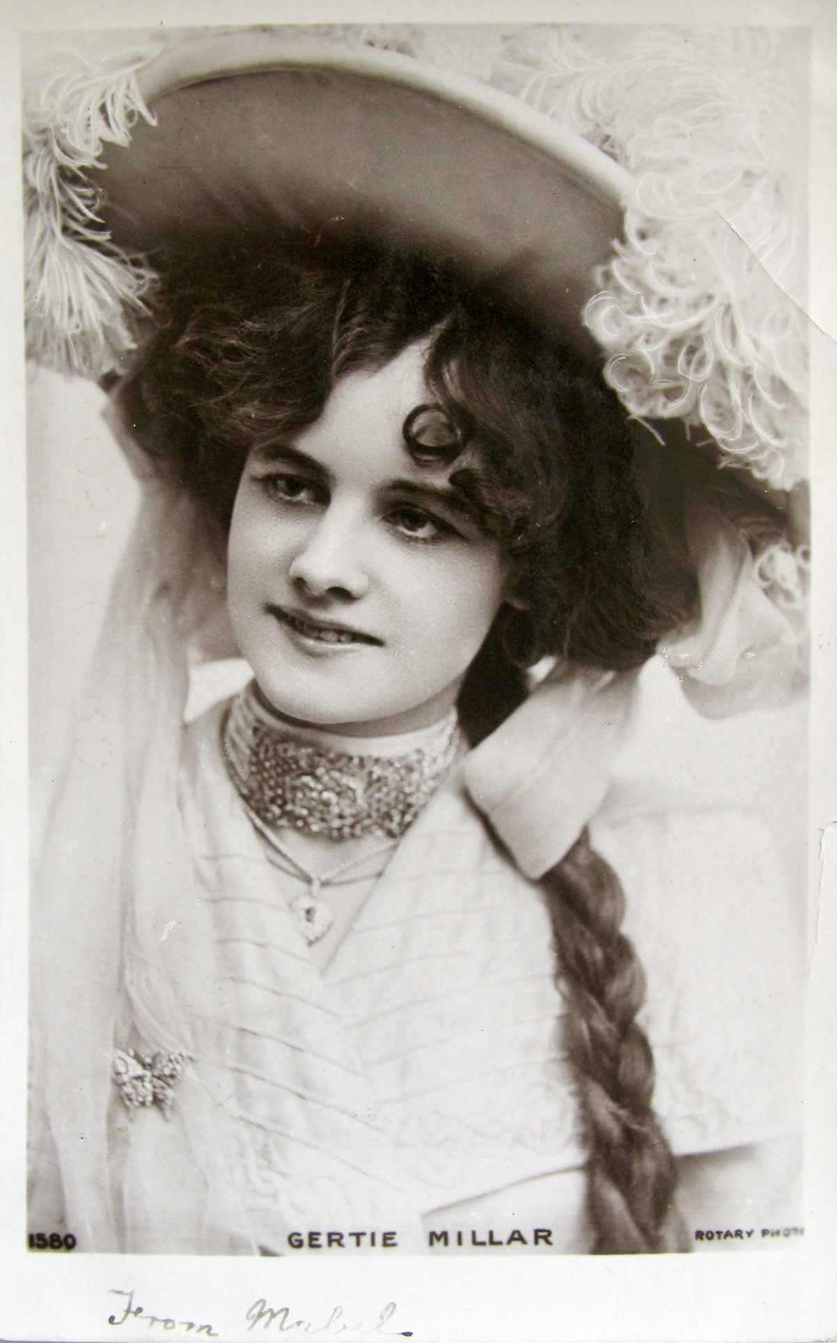 Gertie Millar around 1906.